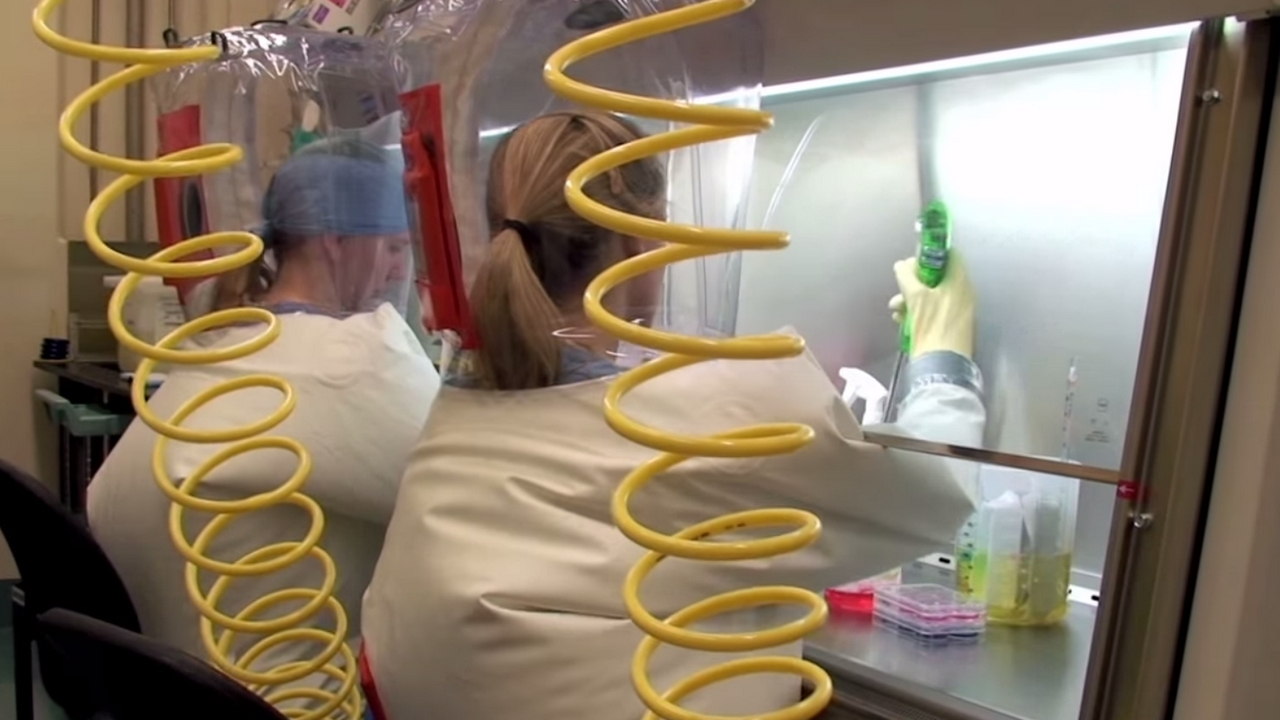 Scientists working inside positive pressure personnel suit at biosafety level 4 (BSL-4) laboratory of the NIAID Integrated Research Facility (IRF) in Frederick, Maryland. This image is part of "The NIAID Integrated Research Facility in Frederick, Maryland" video. Courtesy: National Institute of Allergy and Infectious Diseases.